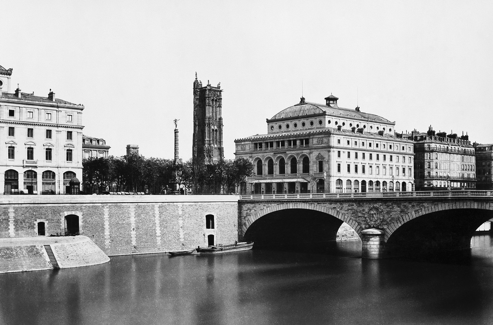 View of the Pont au Change and the buildings on Place du Chatelet, with the Tour Saint-Jacques in the background Medium: Albumen silver print from glass negative Dimensions: 19.2 x 28.0 cm. (7 9/16 x 11 in.)